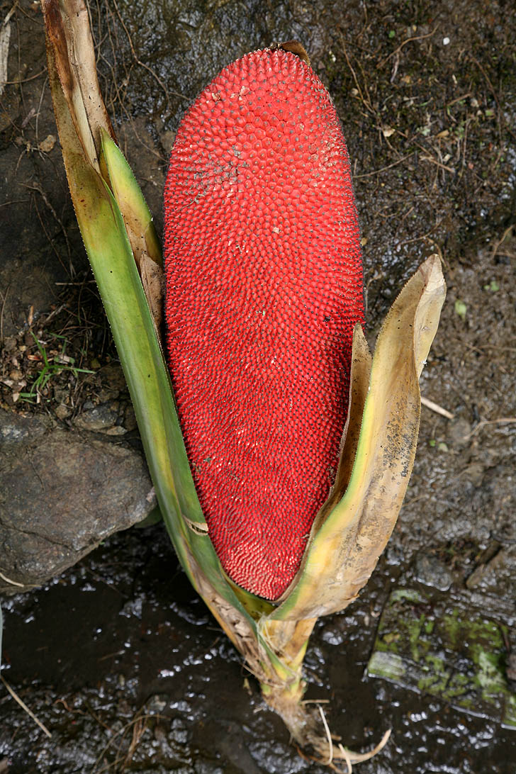 Pandanus conoideus, or red fruit, or marita, or kuansu in local language of Papua New Guinea. Photo taken in Punano Number 1, Eastern Highlands, Papua New Guinea